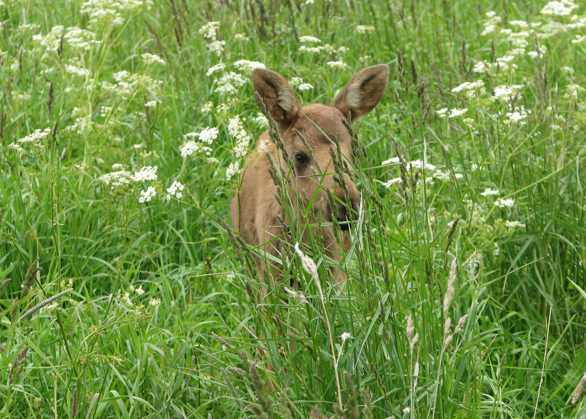 Elk calf in grass (Sweden)